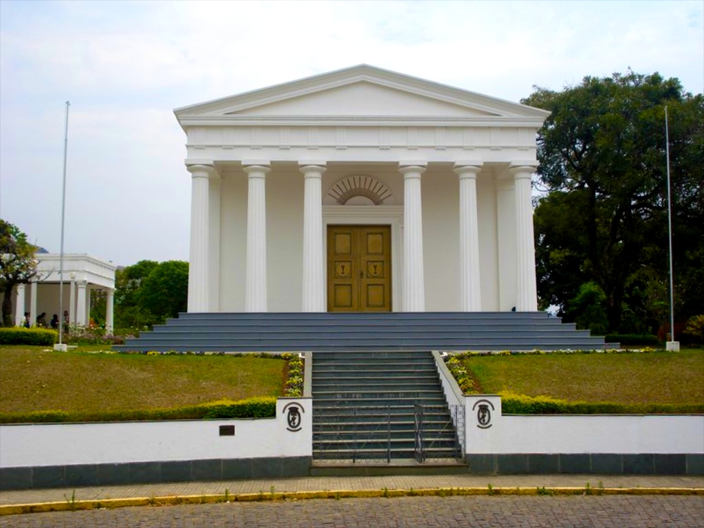 Temple at São Lourenço of the Brazilian Society of Eubiose